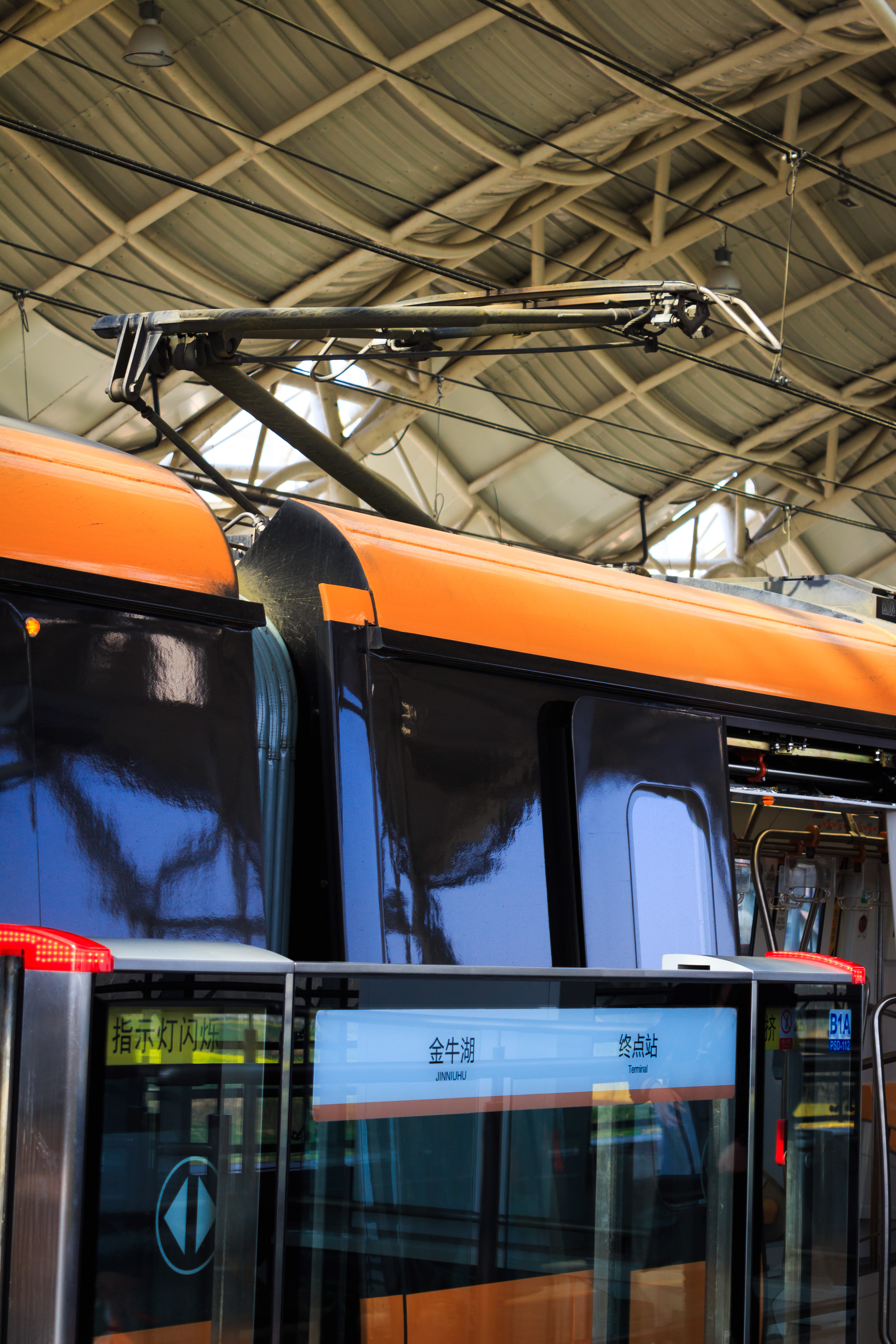 A view of Nanjing Metro Line S8 train pantograph produced by CSR Nanjing Puzhen Co.,Ltd.